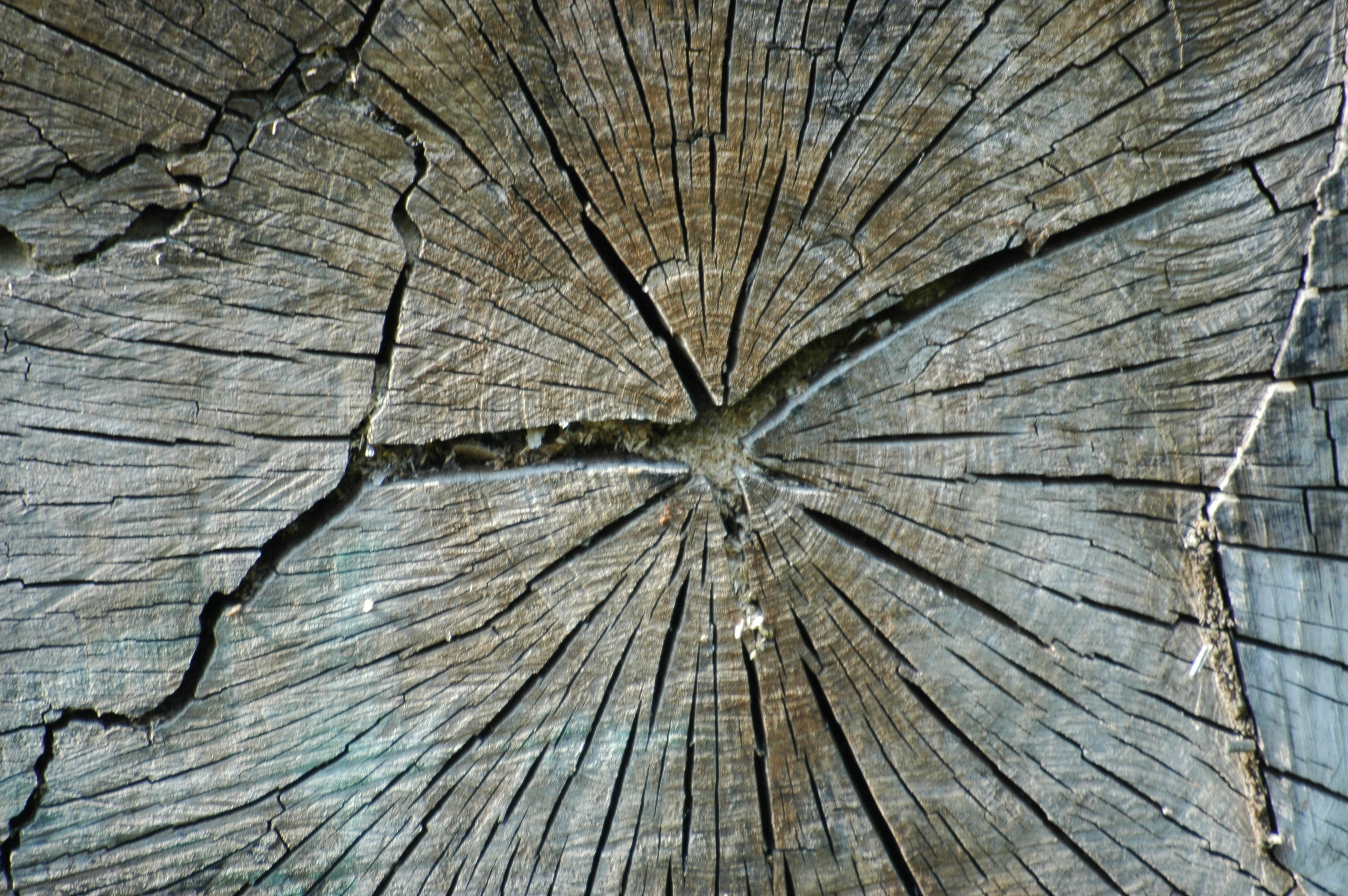 Tree, 55294 Bodenheim, Germany